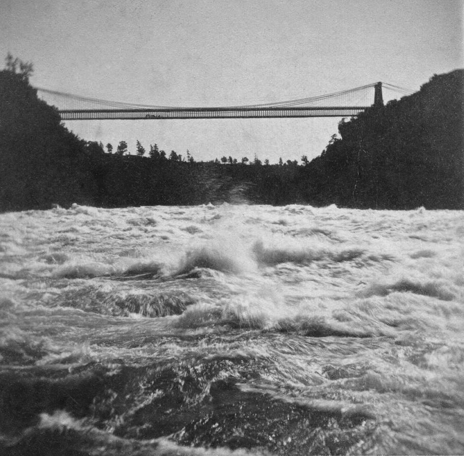 A view from a stereograph of the Niagara Falls Suspension Bridge (pre-1886) from the Whirlpool Rapids